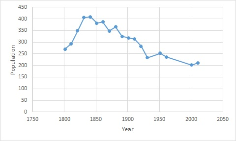 The Total Population of Mettingham Parish, Suffolk as reported by the Census of the population of the UK from 1801 to 2011